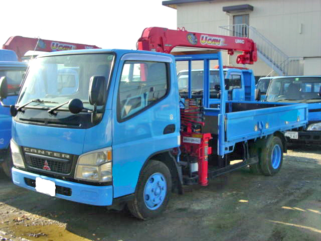 Mitsubishi Fuso Canter Truck crane